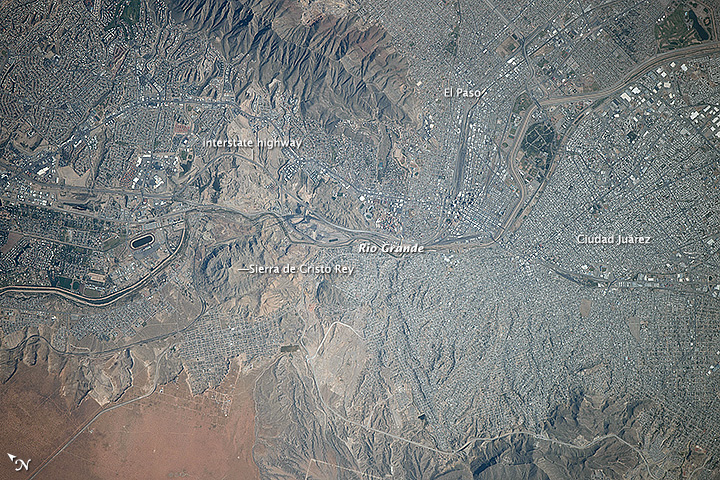 While flying over the border between Mexico and the United States, an astronaut aboard the International Space Station photographed these sister cities on the Rio Grande. The image shows the second largest metropolitan area (population 2.7 million people) on the Mexico–U.S. border. The centers of El Paso and Ciudad Juárez (image top right) lie close together on opposite sides of the Rio Grande, and large residential areas cover the arid slopes in the rest of the scene. The river crosses the entire image as a prominent line and acts as the international border. (Note that north is to the left in this image.) A large, elliptical race track appears on the far left. The name El Paso refers to a pass or gap in the mountains cut by the Rio Grande (known as the Rio Bravo del Norte in Mexico). This narrow pass divides the Franklin Mountains (image upper margin) from hills in Mexico. The prominent hill Sierra de Cristo Rey (with its statue of Christ) stands on the border. The pass at El Paso has been important for transportation for centuries. Several railroads converged on El Paso in the 1880s, and the curved line of one of them can be seen climbing out of the gap (image lower left). The transcontinental interstate highway—which joins Florida to southern California—also cuts through the gap in downtown El Paso.